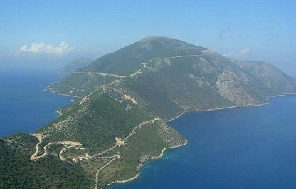 North Ithaca, seen from Mount Aetos. Photo by Rien Post, public domain.